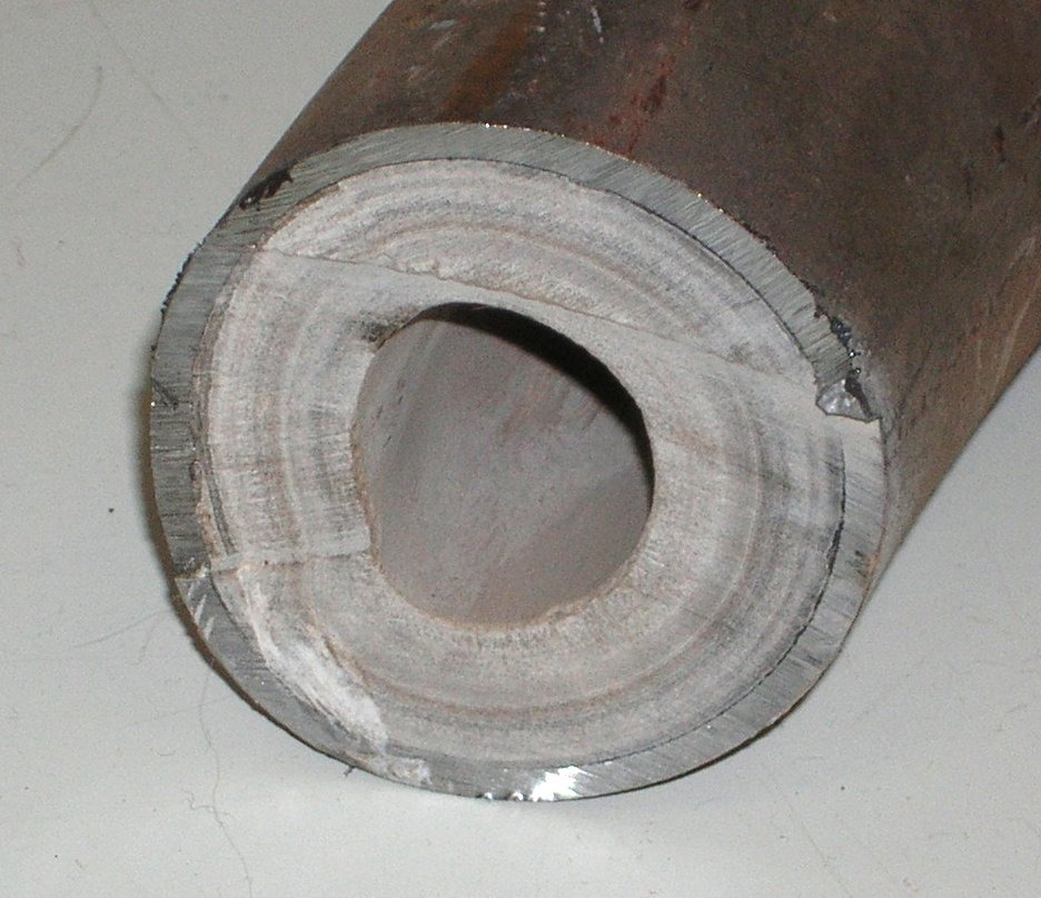 Heat exchanger pipe cross-section with the thick scale crust on the inside wall.